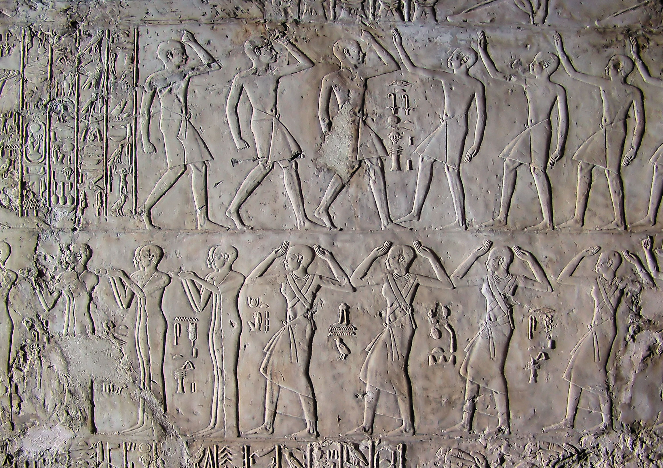 These are finely carved reliefs from the tomb of Kheruef (TT192) His tomb is the largest such private tomb to be located on the West Bank at Luxor. Kheruef served as a royal scribe and first herald to Amenhotep III and later as a steward for Amenhotep III's great royal wife, Tiye. His tomb was decorated between the final years of Amenhotep III and the beginning of the reign of Akhenaten although it was never finished.